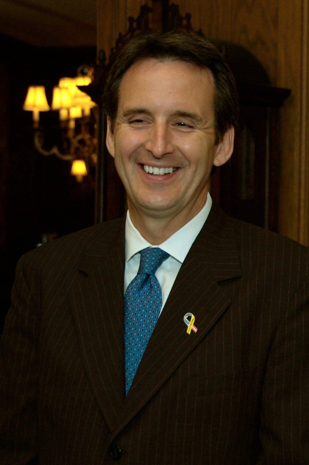 Minnesota Governor, Tim Pawlenty at the Governor's residence in June 2008. Photo was cropped and lightened to better show subject